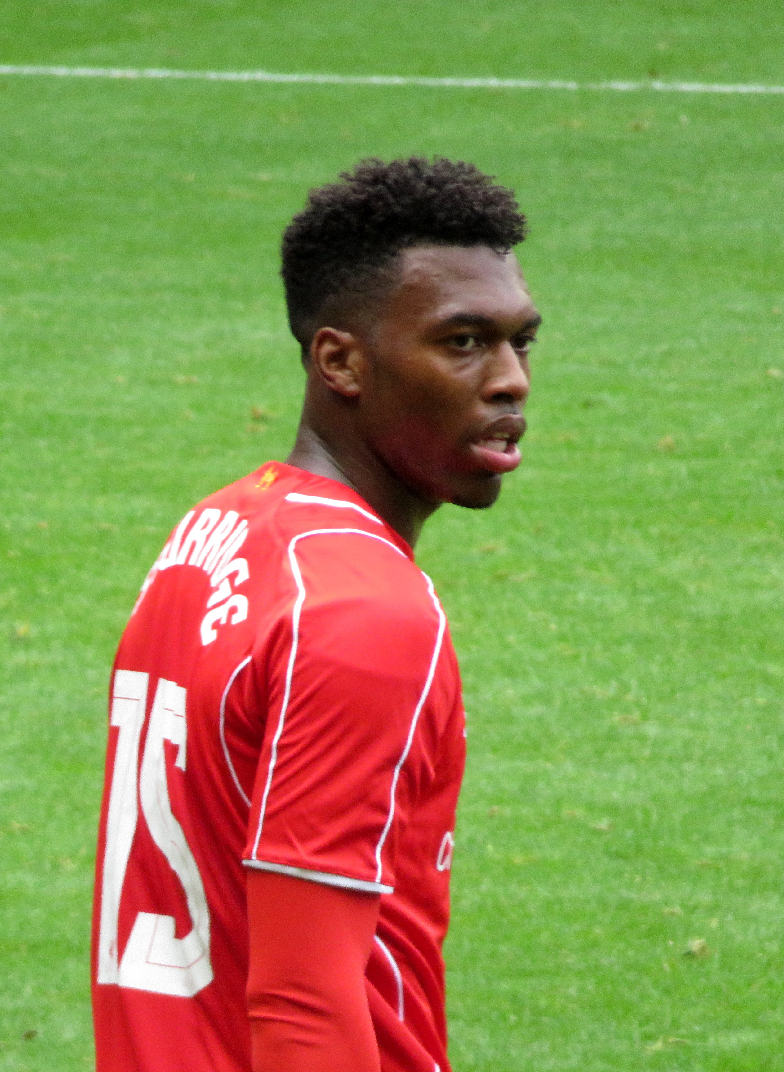 Daniel Sturridge playing for Liverpool in a friendly match against Borussia Dortmund on 10 August 2014.